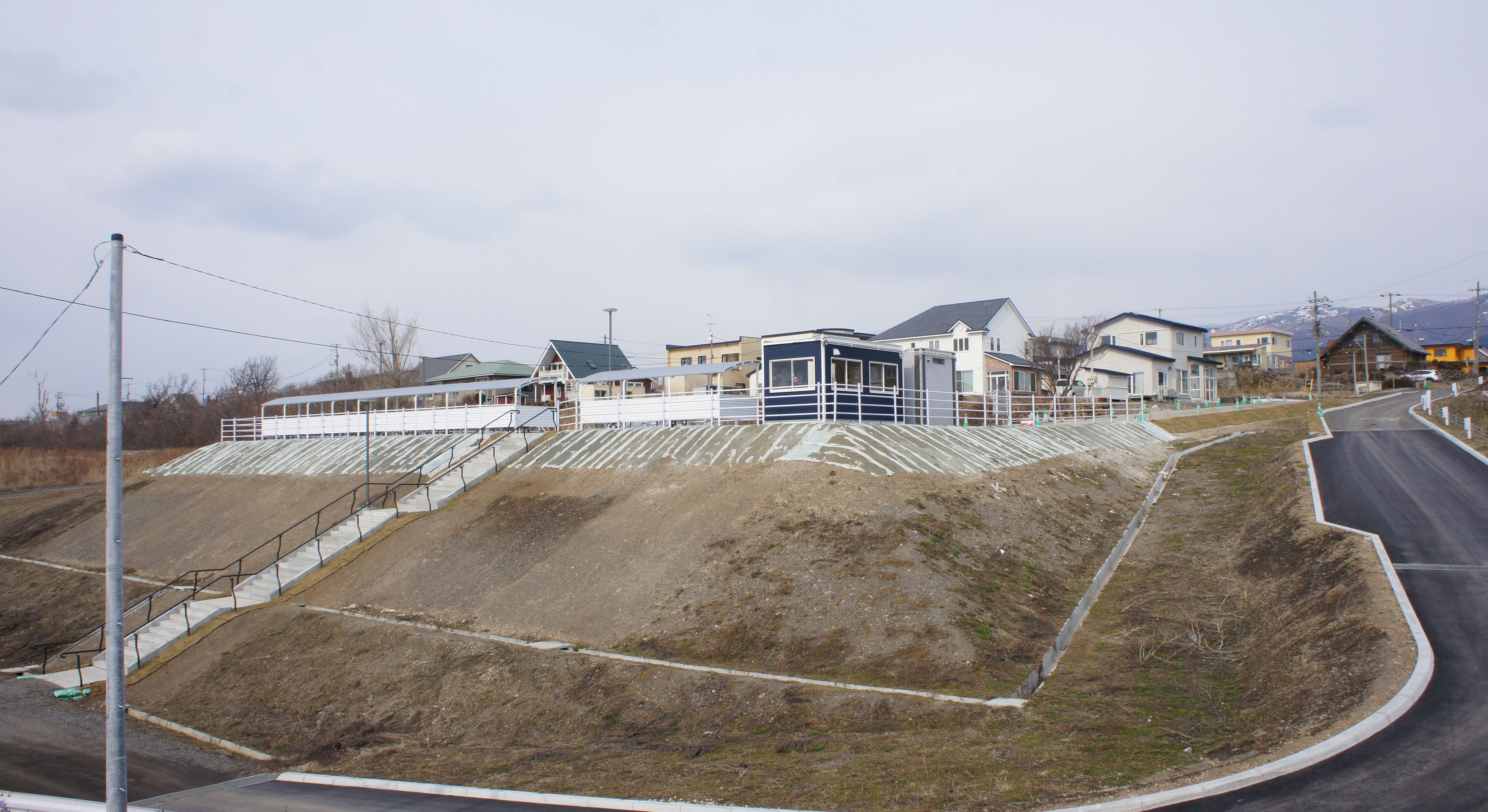 Station square of JR Muroran-Main-Line Kita-Funaoka Station. Taken from the overpass. Sony NEX-3 + E 18-55mm F3.5-5.6 OSS